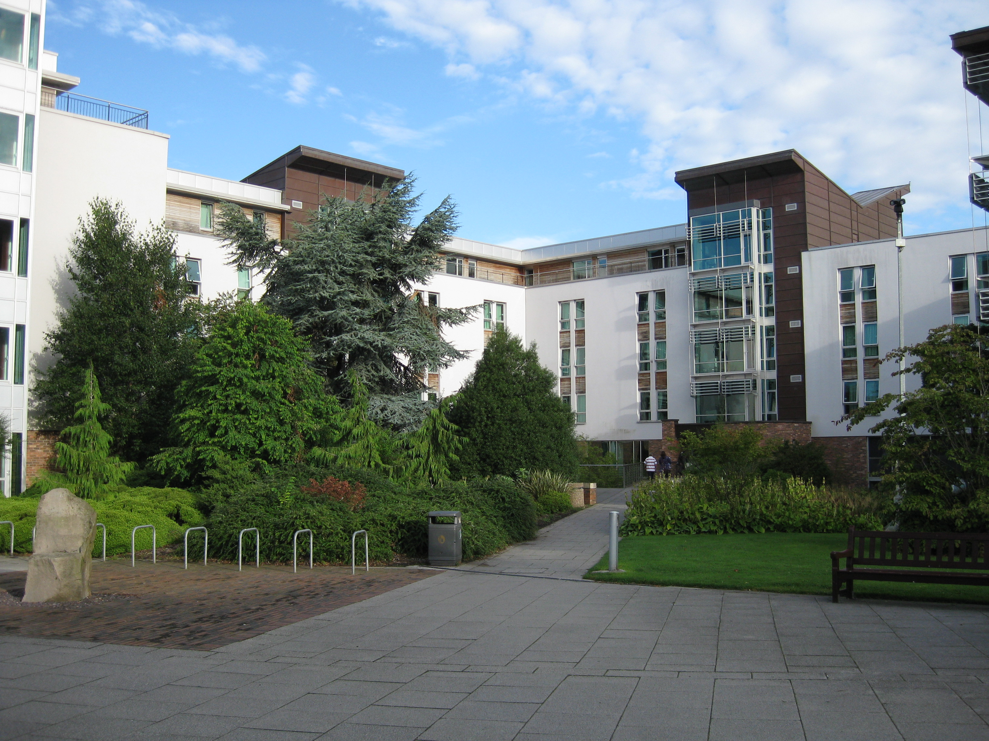 Chancellor's Court. Student hall of residence on the Pollock Halls site of the University of Edinburgh.